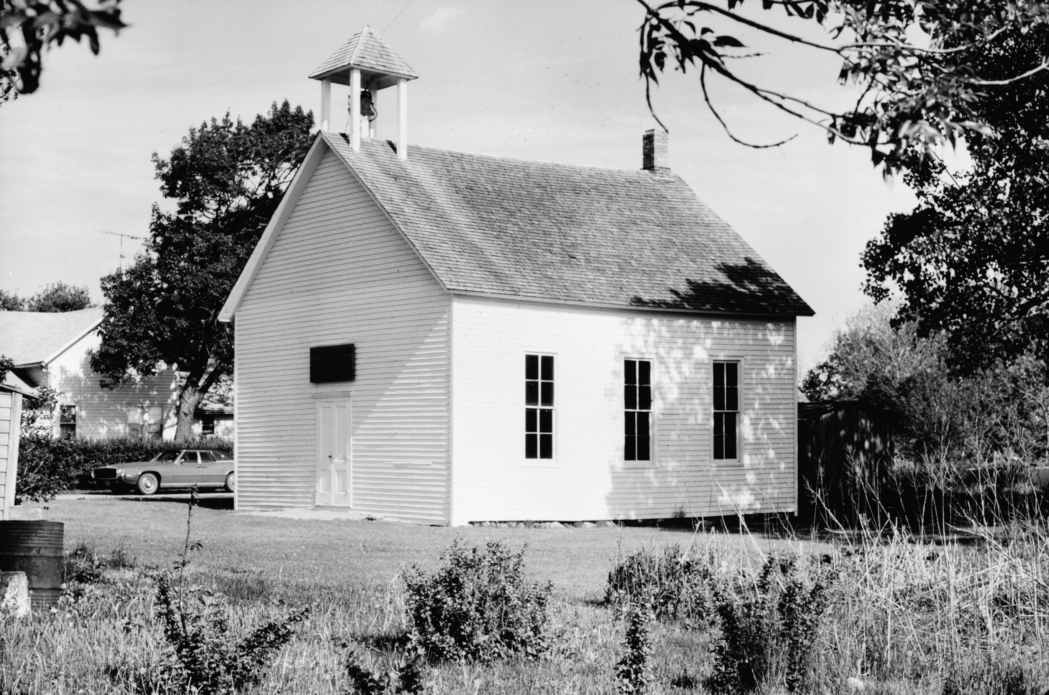 Front and side of the Sheldahl First Norwegian Evangelical Lutheran Church, located at the intersection of Third and Willow in Sheldahl, Iowa, United States. Built in 1883, the church is listed on the National Register of Historic Places.